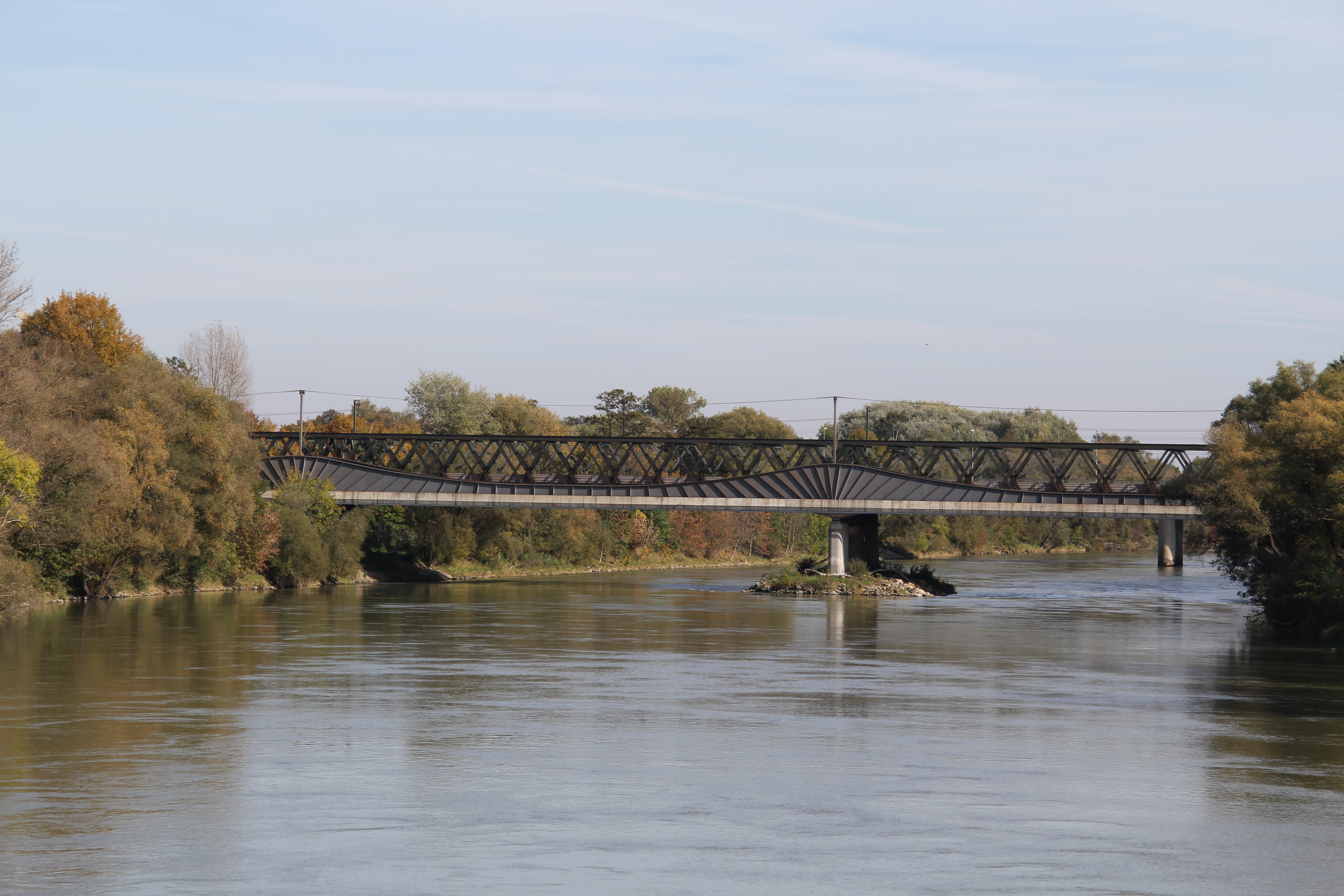 Ingolstadt, railway bridge, from west as seen from the Donausteg